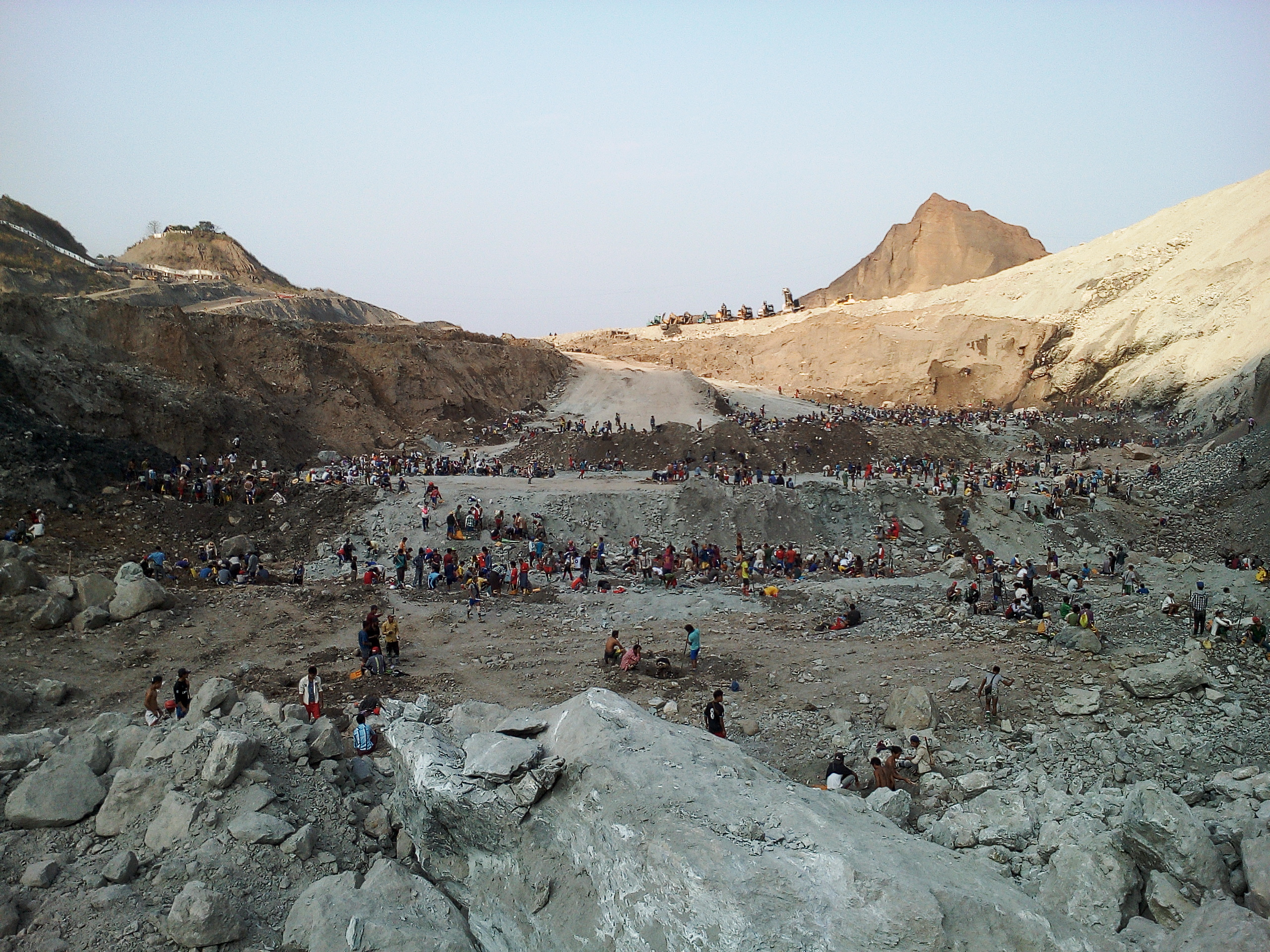 Almost people are youth coming from different parts of the nation who spent most of time by hardworking that place. #KachinState #Myanmar